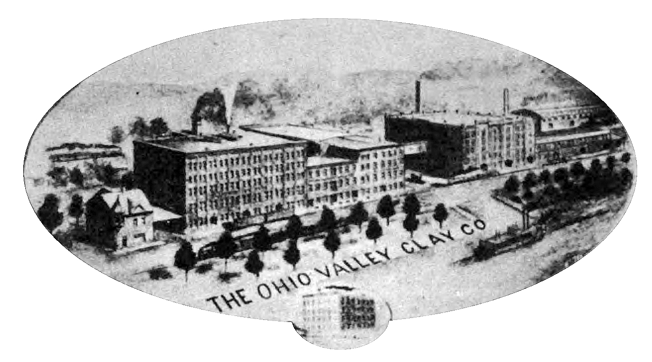 Ohio Valley Clay Company, was a site on the National Register of Historic Places in Jefferson County, Ohio.